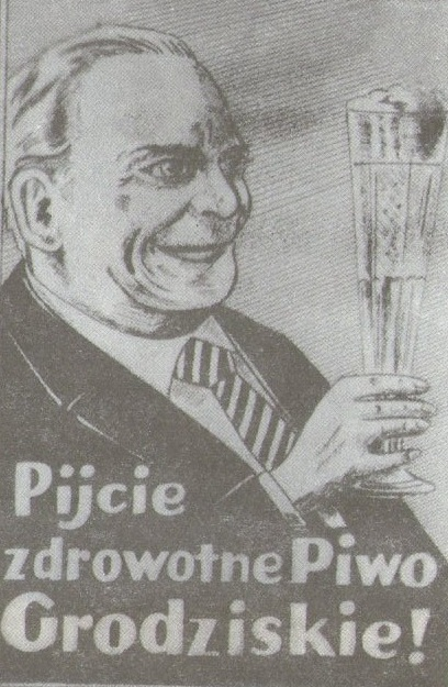 Grätzer Beer- a poster (interwar period)